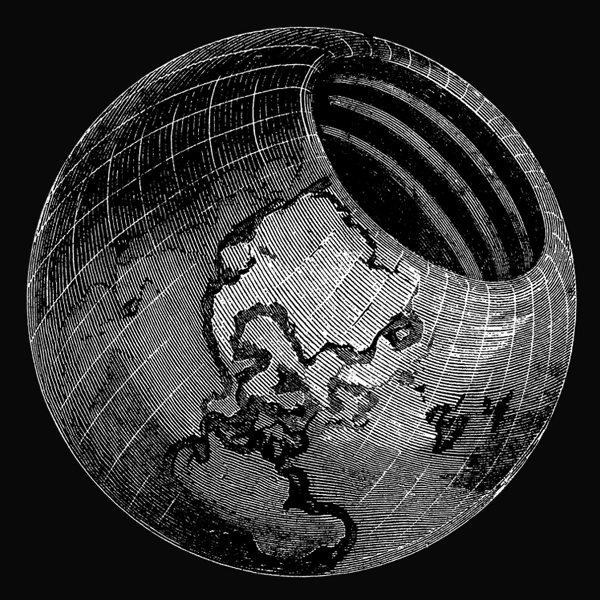 Illustration from "Symmes's Theory of Concentric Spheres: Demonstrating That the Earth is Hollow, Habitable Within, and Widely Open About the Poles, Compiled by Americus Symmes, from the Writings of his Father, Capt. John Cleves Symmes"